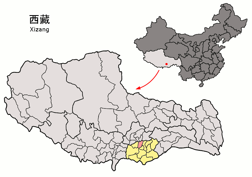 Location of Zhanang County (pink) and Shannan Prefecture (yellow) within Tibet (Xizang) autonomous region of China